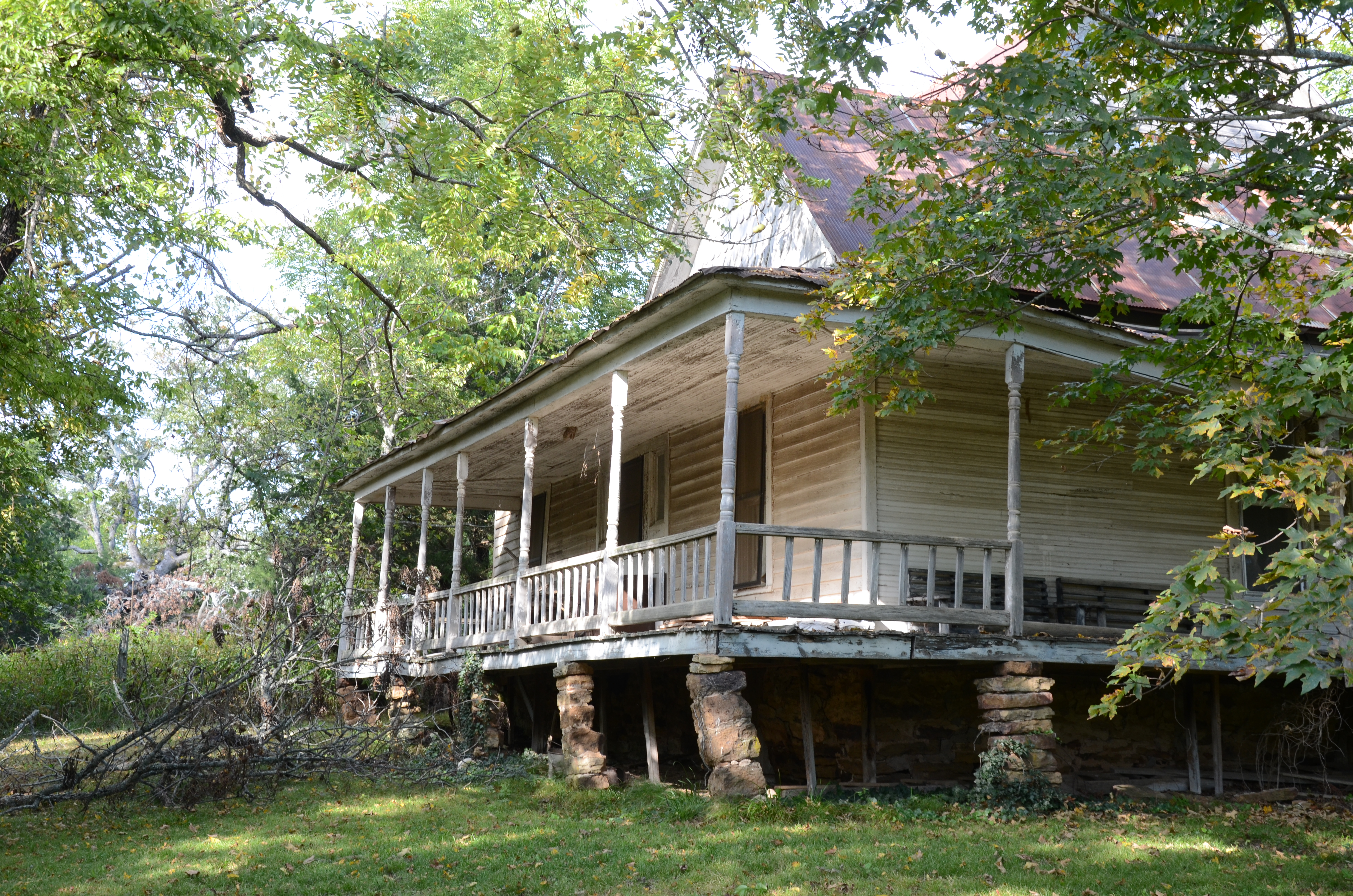 Slack-Comstock-Marshall Farm, North of Highway 220, W. Uniontown